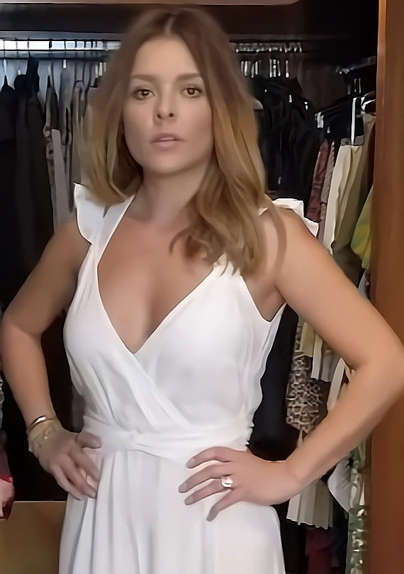 Grettel Valdez in 2019